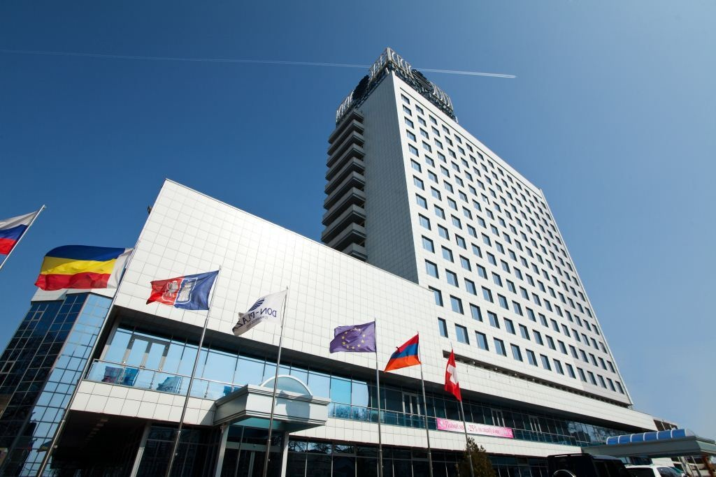 photo